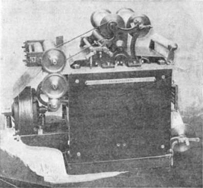 Kromarograph - An autonatic music-recording apparatus